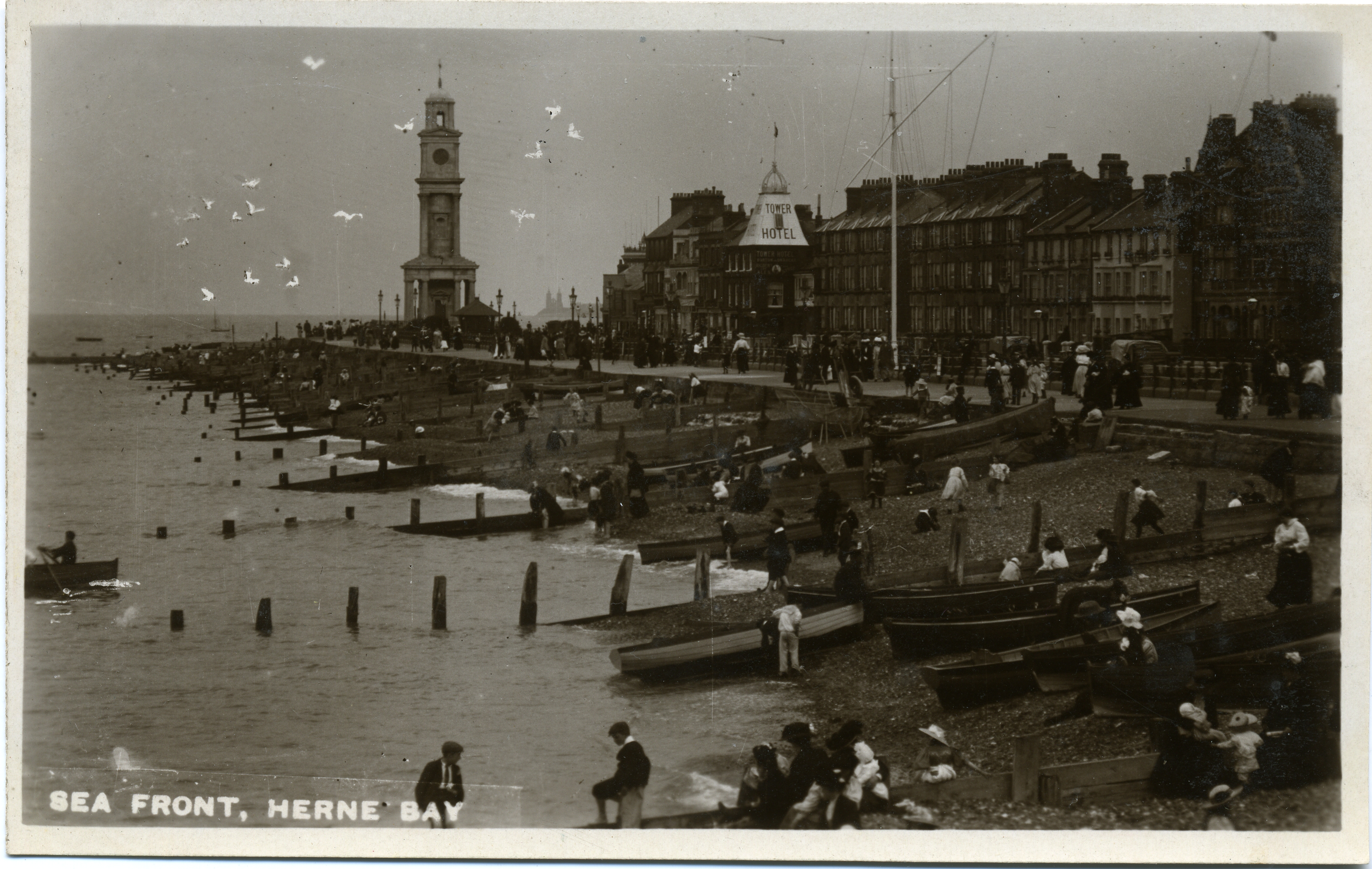 Postcard of Tower Parade, Herne Bay, Kent, England, by Fred C Palmer. The photo was taken from the pier, and shows the beach east of the pier. The clothes worn by the people suggest a date 1910-1914. Points of interest Between the clock tower and the buildings, Reculver can be seen in the background, still having the metal superstructures on the towers. Hoys (small boats) are still in use for fishing and for giving rides to tourists. Everyone is overdressed by 21st century standards; no-one swims; children can only paddle in their formal clothes.